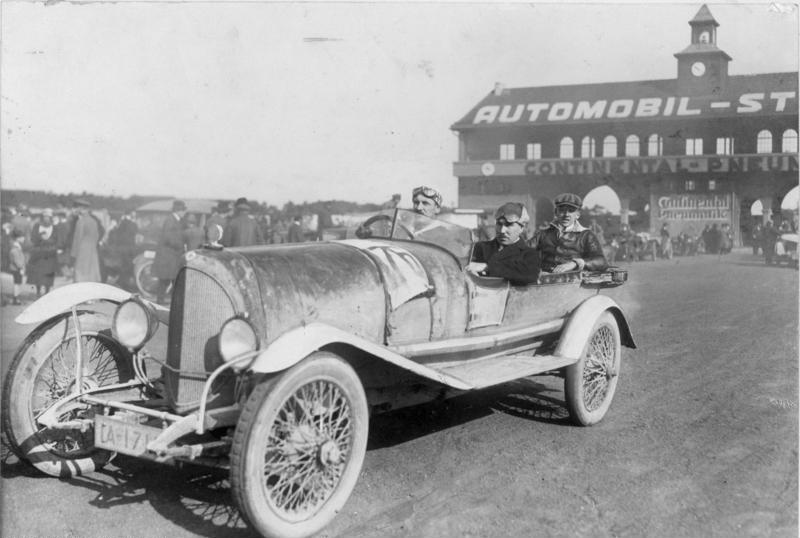 Car at the "AVUS", the first German motorway